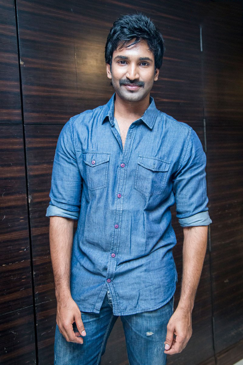 Indian actor Aadhi Pinisetty at Maragatha Naanayam audio launch event in March 2017